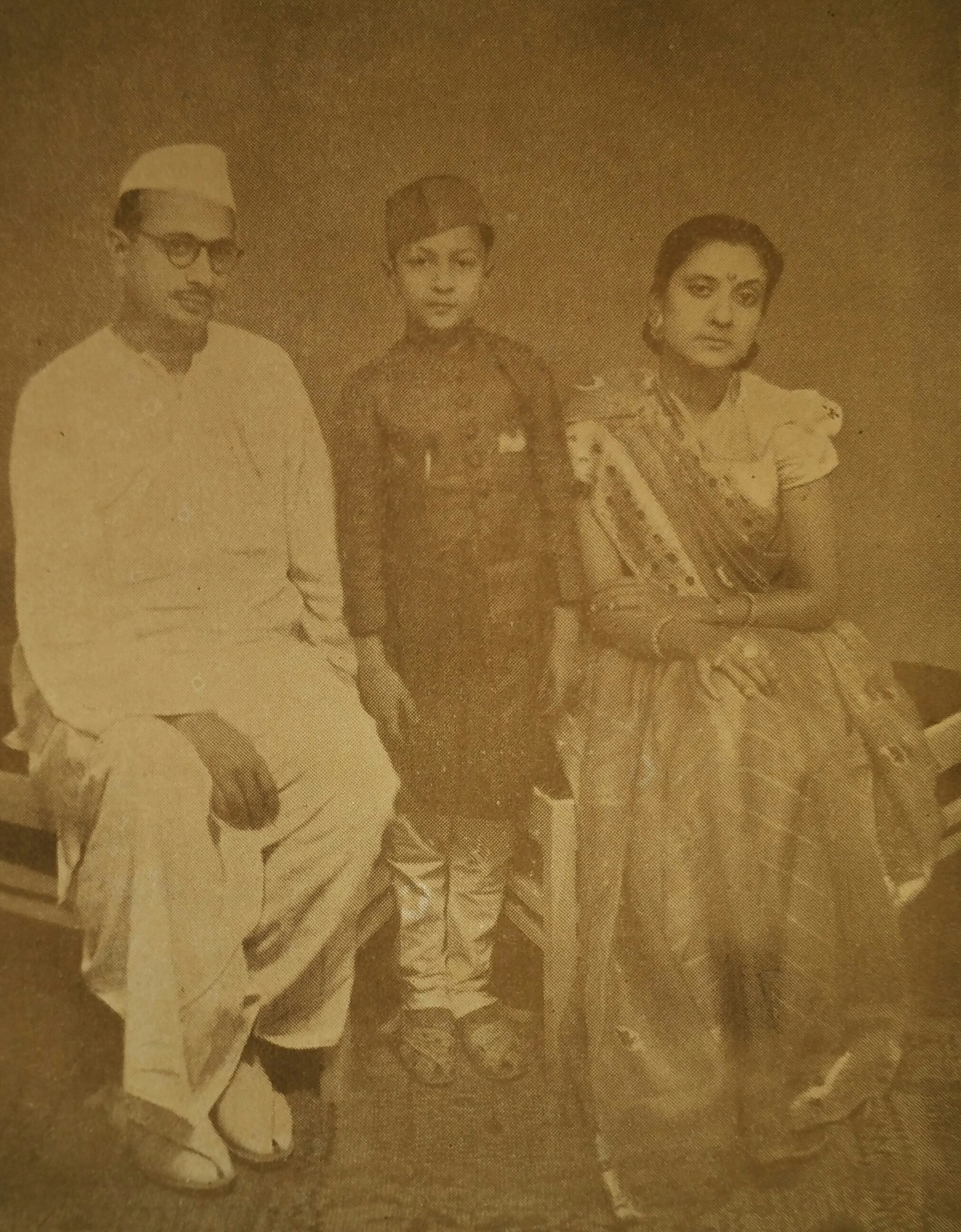 A historic and rare snap from 1946: A young Smt. Kishori Sinha Ji (daughter-in-law of Bihar Vibhuti) with husband Satyendra Narayan Sinha ,Chhote Saheb (future Bihar CM) and son Nikhil Kumar (Future Governor of Kerala)